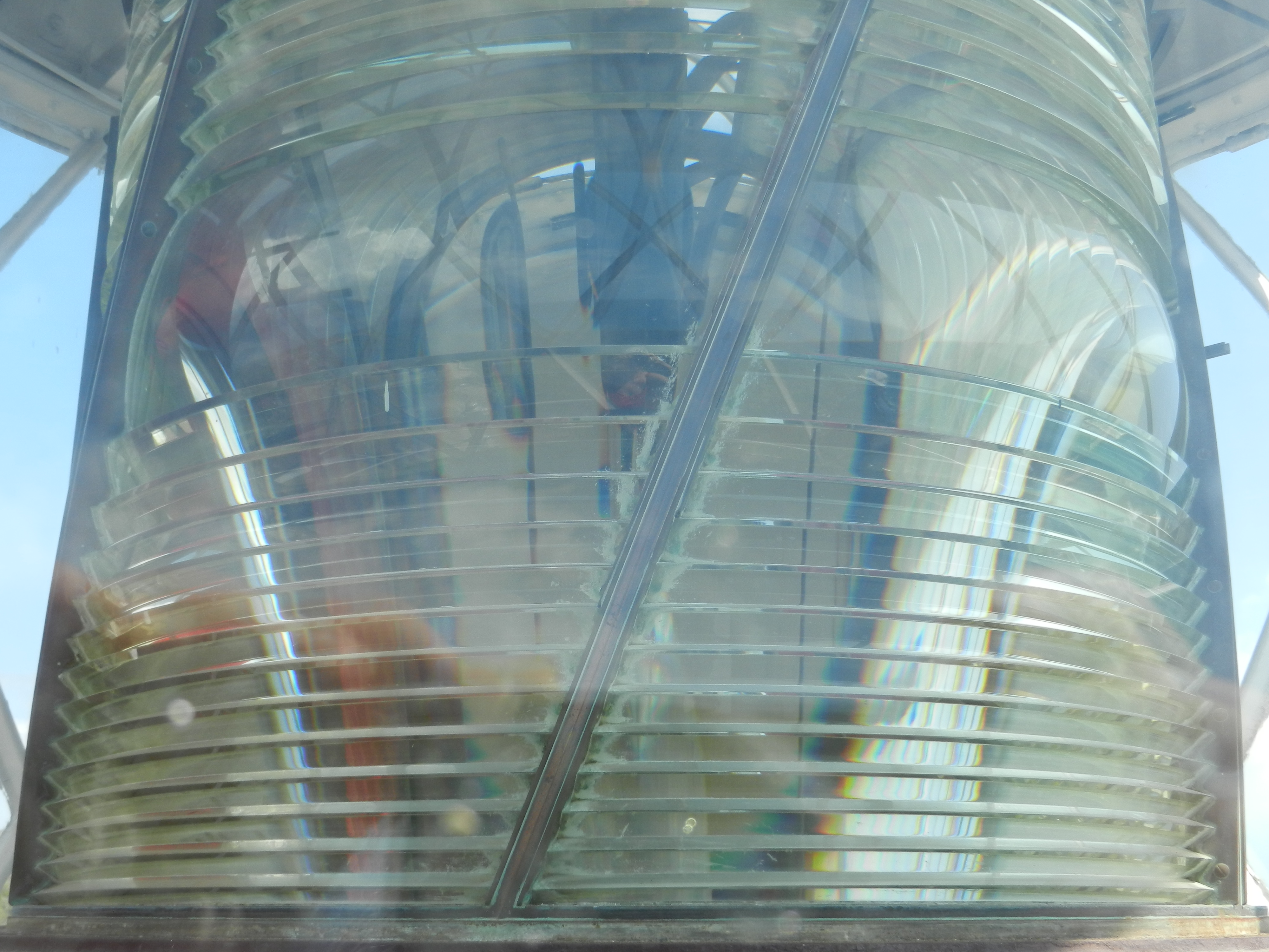 Operating lens at Negril Point Lighthouse, Jamaica